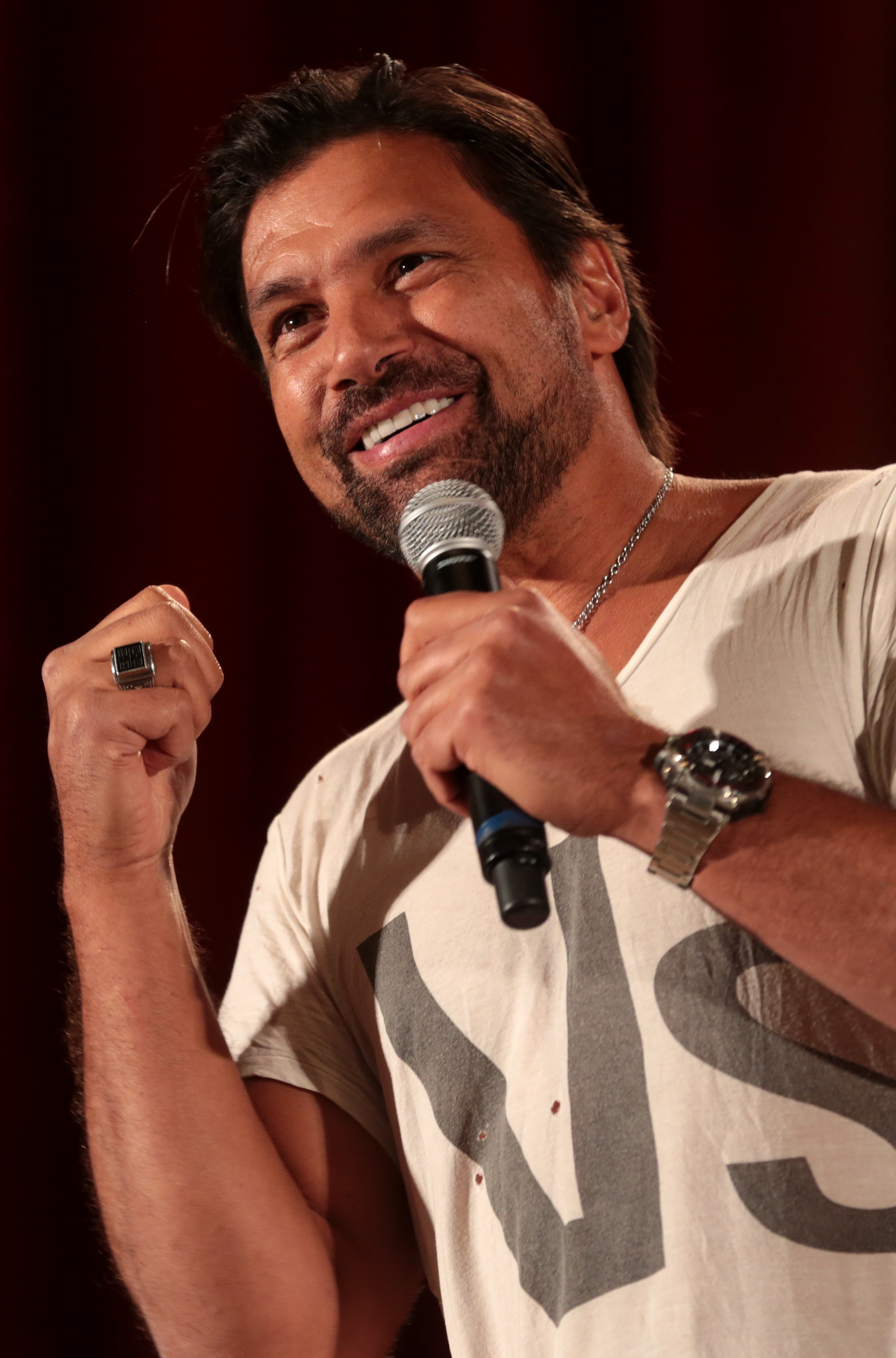 Manu Bennett speaking at the 2018 Phoenix Comic Fest in Phoenix, Arizona.